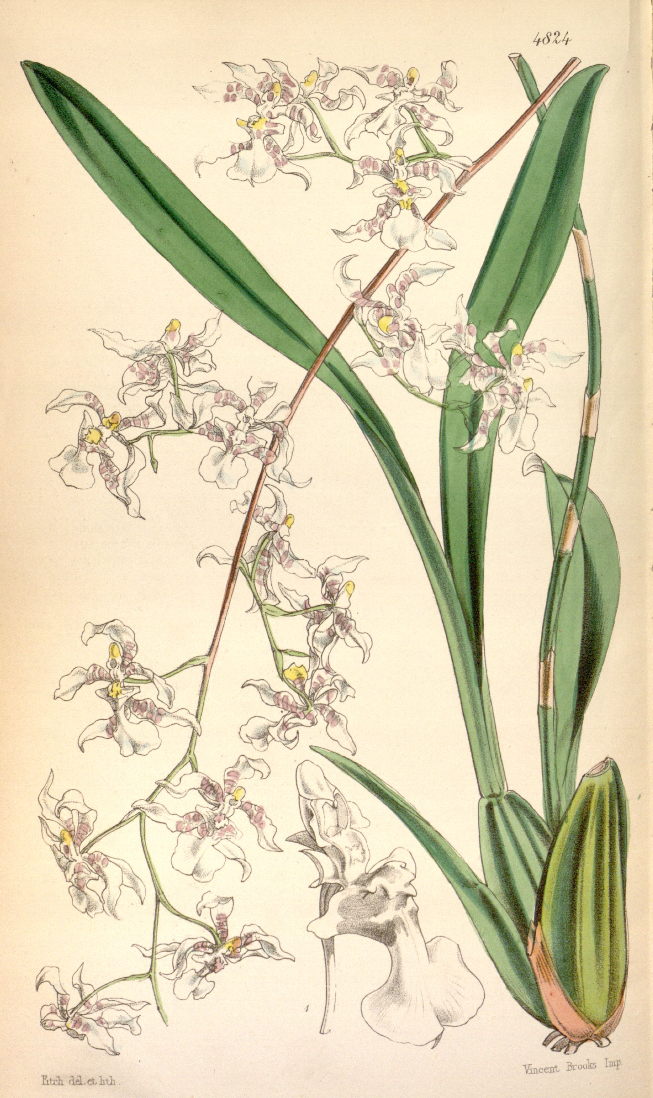 Illustration of Oncidium incurvum